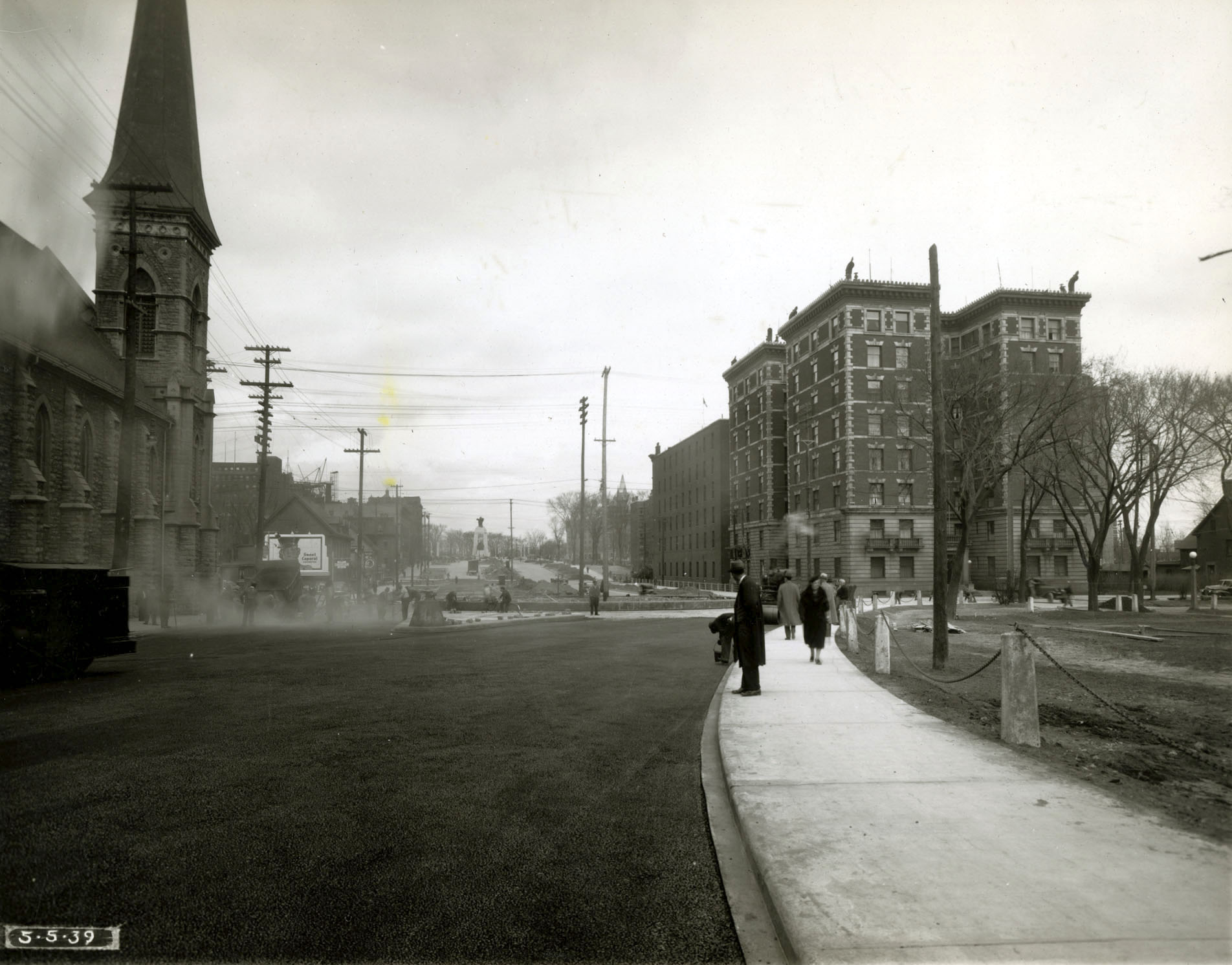 Construction of Confederation Square - Roadwork and paving on Elgin Street next to First Baptist Church